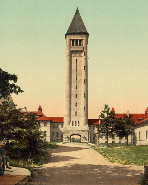 Tower At Fort Sheridan — "Fort Sheridan", negative number 53890, "Copyright 1898 by Detroit Photographic Co."